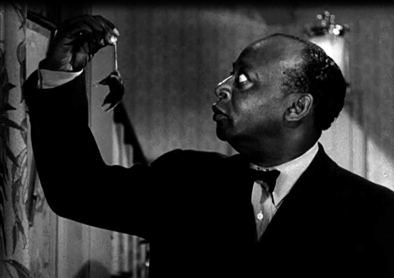 Birmingham Brown (Mantan Moreland) holding a mouse in a comic moment near the end of the 1946 American Charlie Chan film The Trap (1946). The film is in the public domain due to the omission of a valid copyright notice on its original prints.